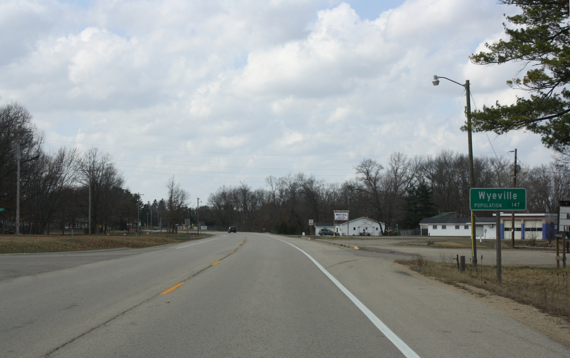 The sign for Wyeville, Wisconsin on Wisconsin Highway 21.